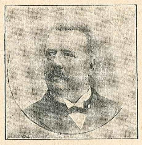 Louis Ljungberg (1861-1934), Swedish jurist and member of parliament.